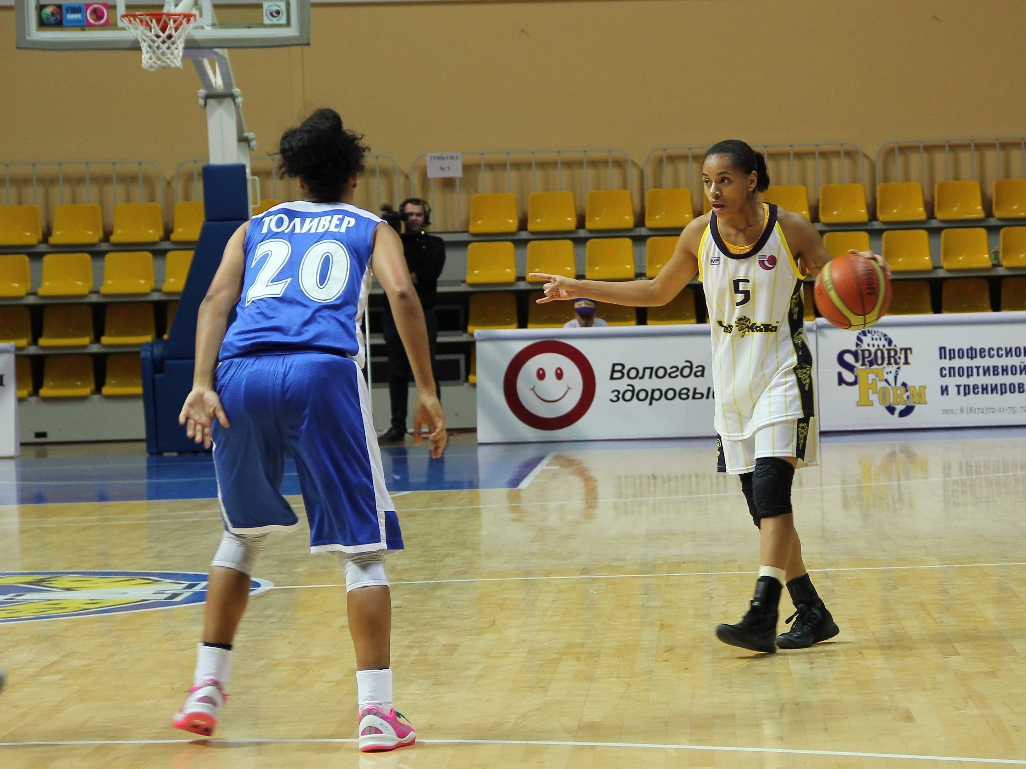 Russia, Vologda, Angel Goodrich vs Kristi Renee Toliver in game «Vologda-Chevakata» vs «Dinamo» (Moscow)